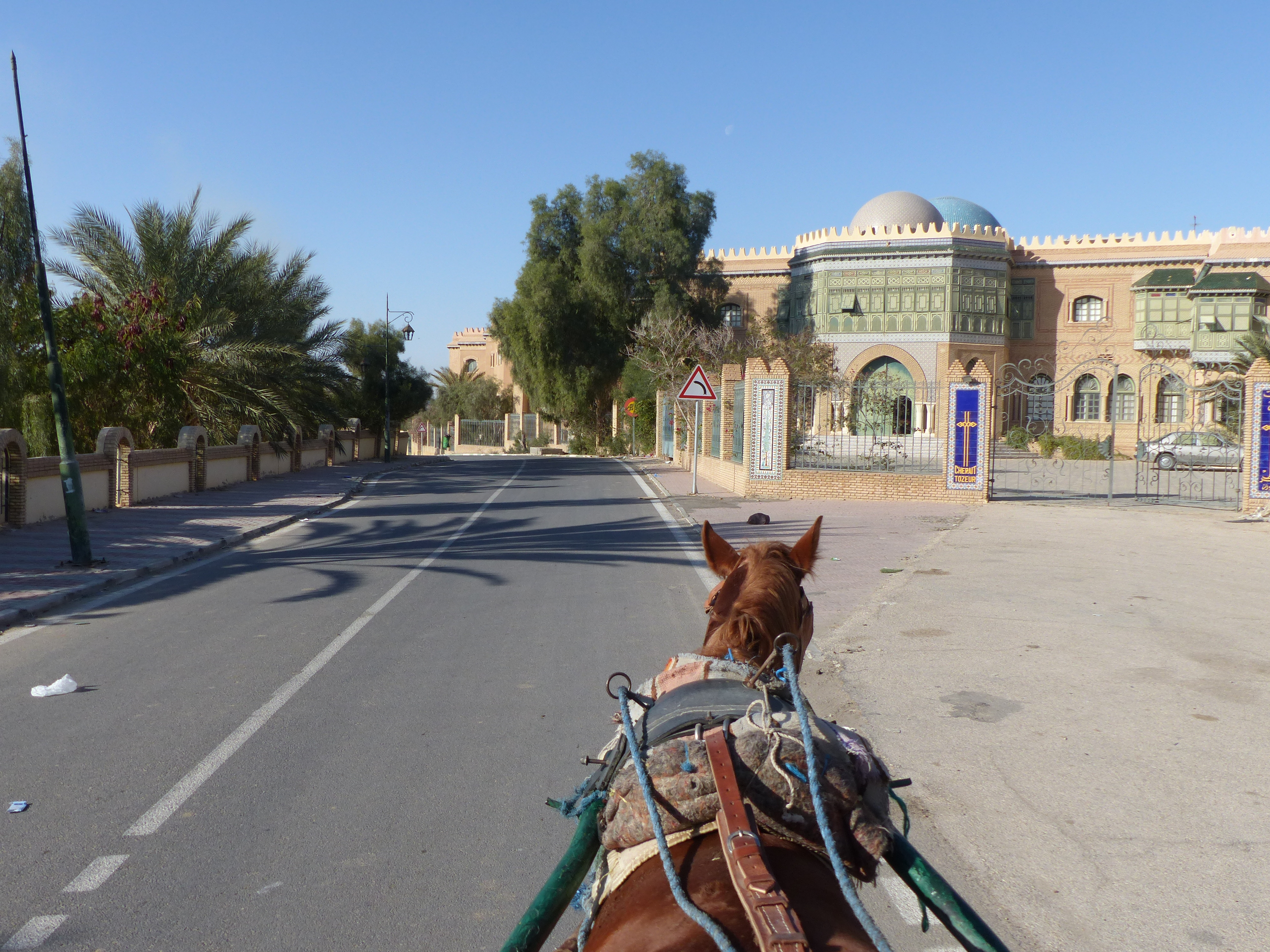 This is an image with the theme "Africa on the Move or Transport" from: Tunisia